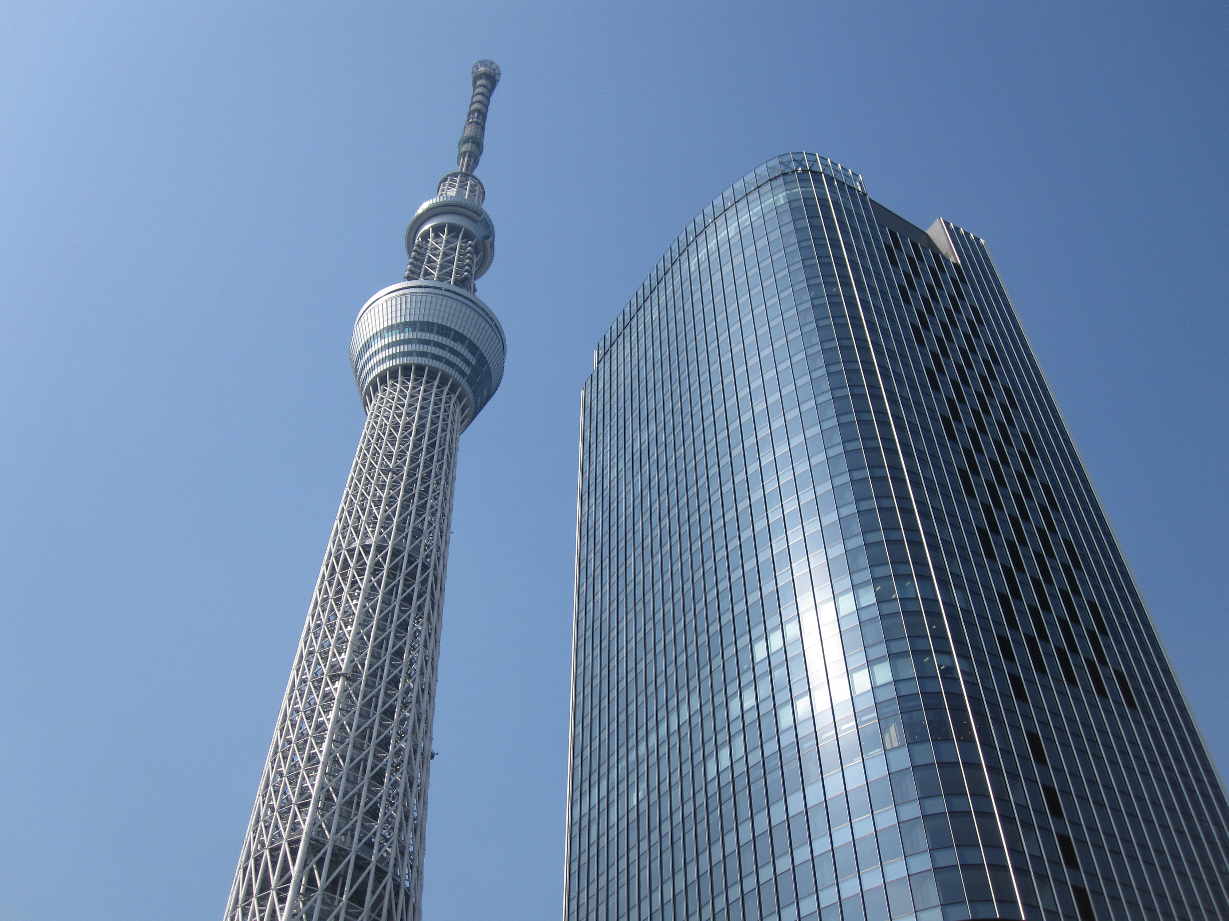 Tokyo Sky Tree and Tokyo Sky Tree East Tower